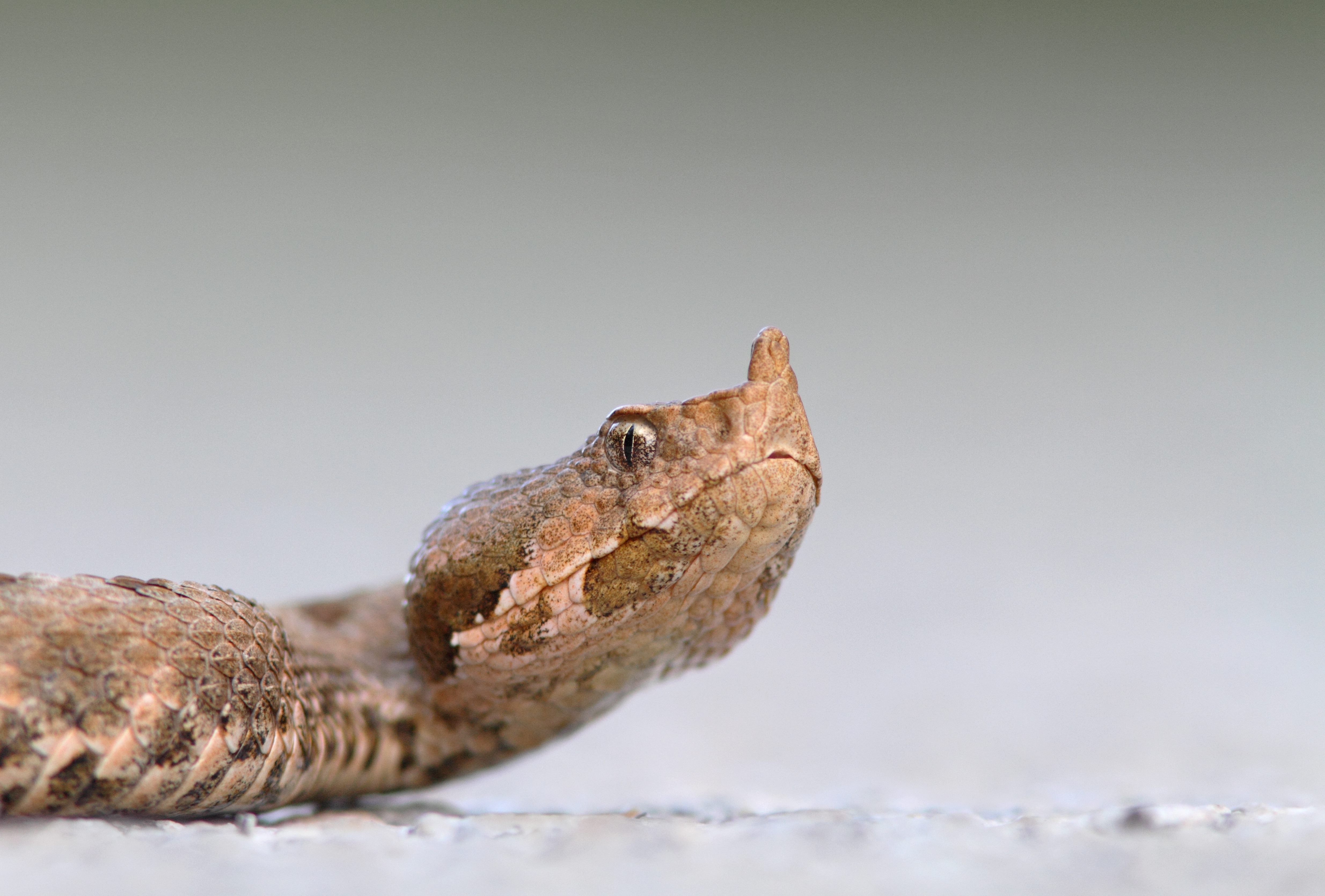 This Nose-horned Viper (Vipera ammodytes) was basking on the road in Dadia Forest, Greece